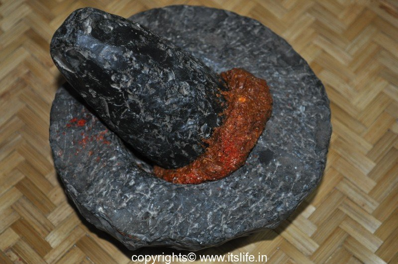 Hunase Chigali preparation